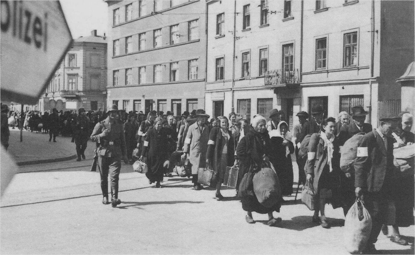 German occupied Poland. A column of captive Jews march with bundles down the main thoroughfare in Krakow during the liquidation of the Krakow Ghetto. SS guards oversee the deportation action to the extermination camps.